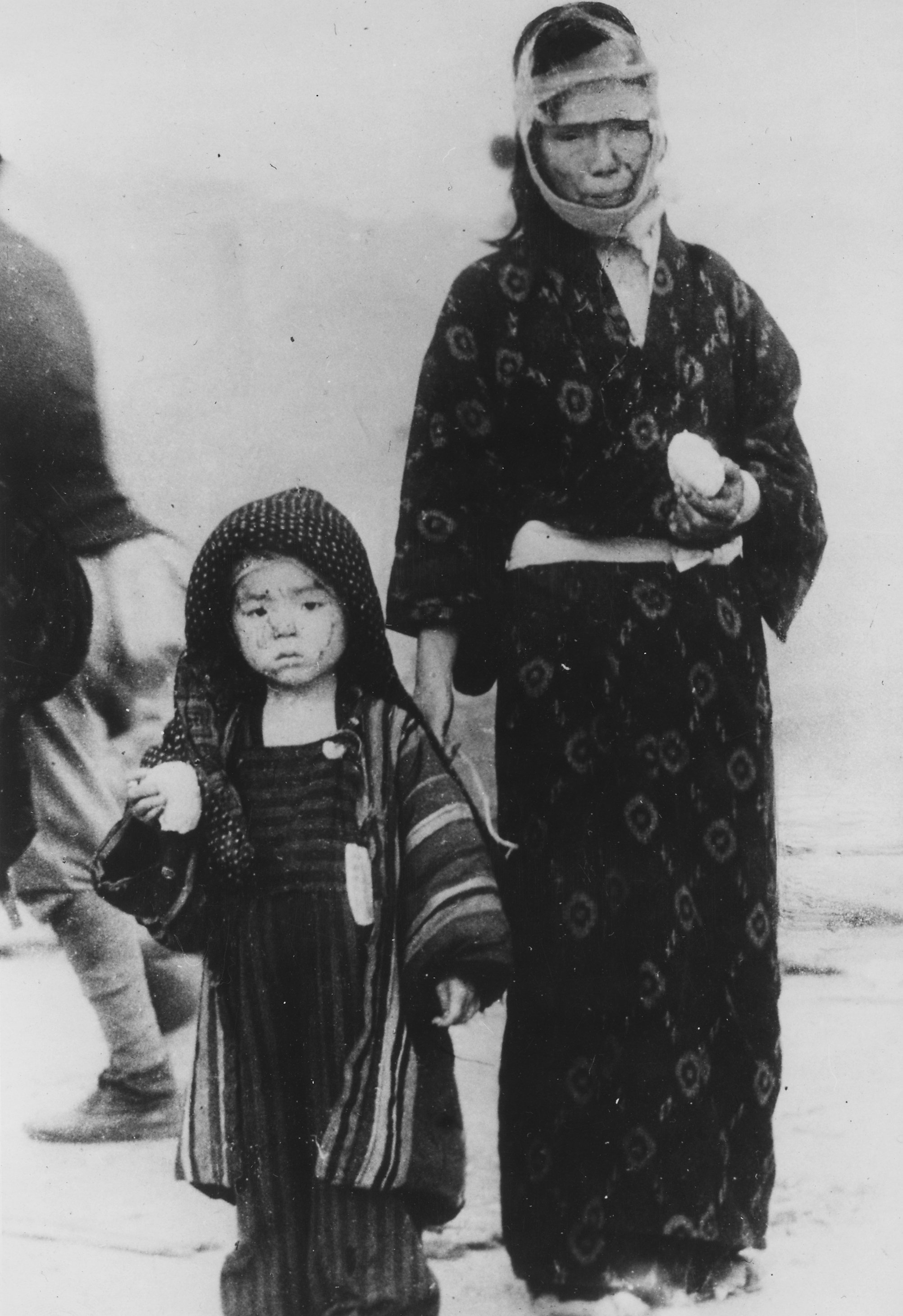 Before noon on August 10, 1945, a mother and her son have received a boiled rice ball from an emergency relief party. One mile southeast of Ground Zero, Nagasaki.